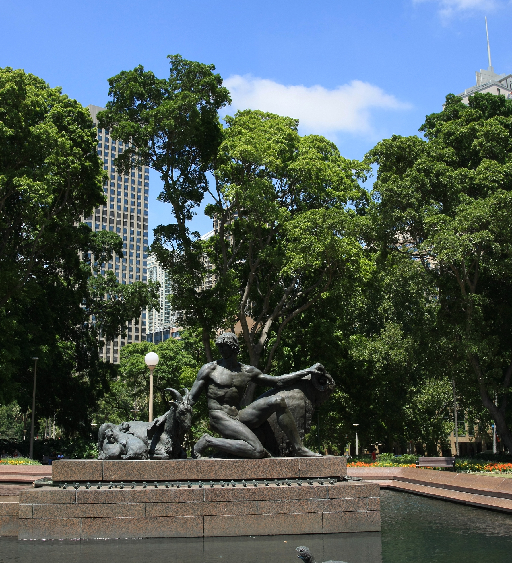 Fountain in Hyde Park, Sydney